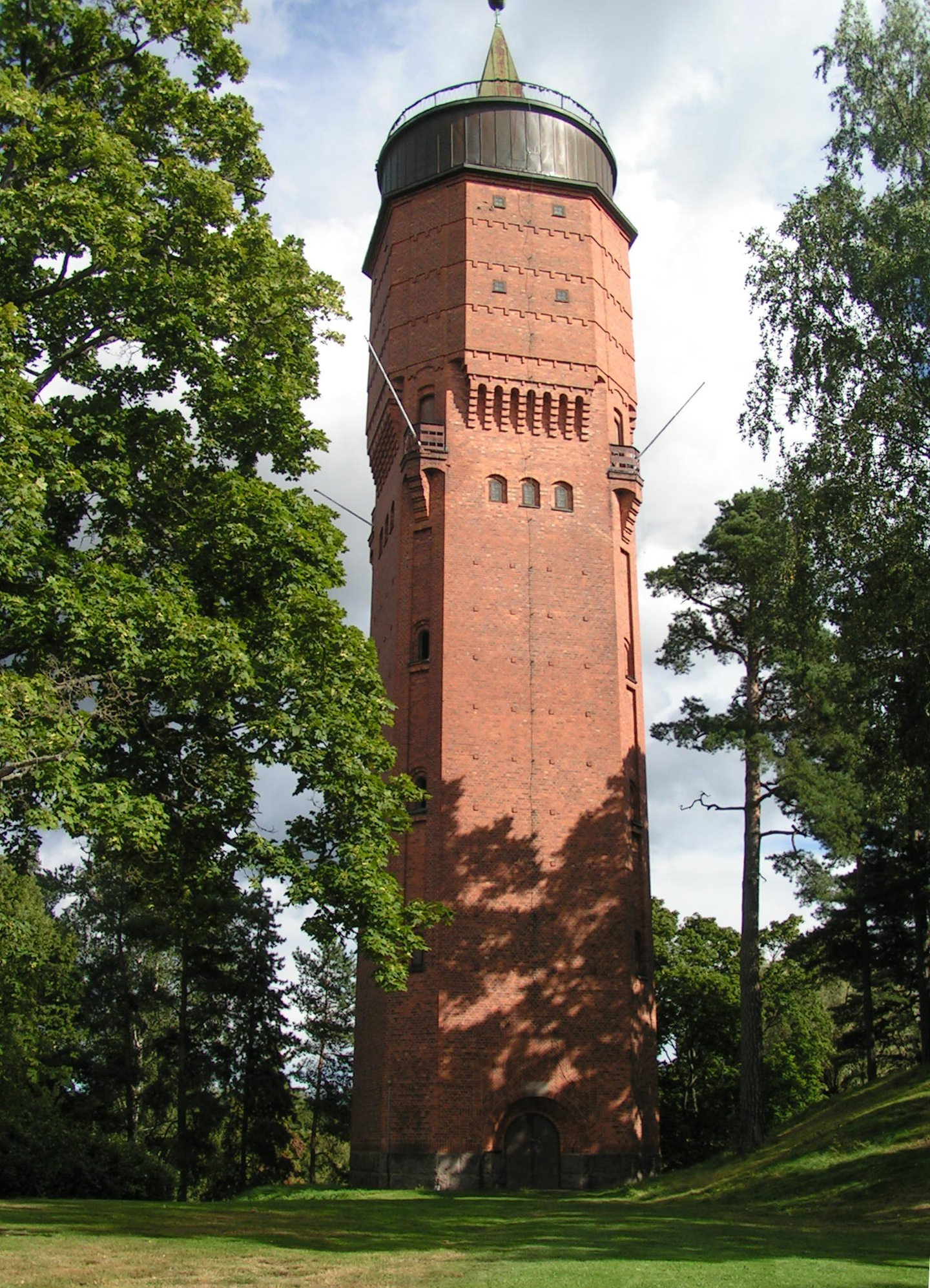 Old water tower in Säffle, Sweden. Architect Ivar Tengbom 1911. Rebult 1944 by Cyrillus Johansson